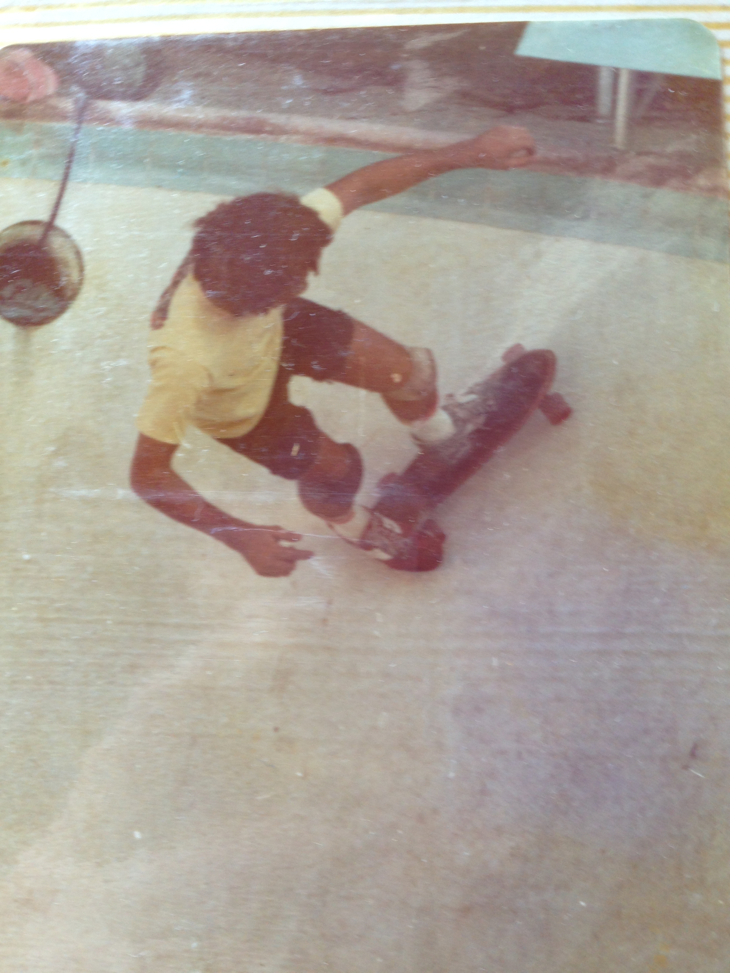 bill mooney garden grove